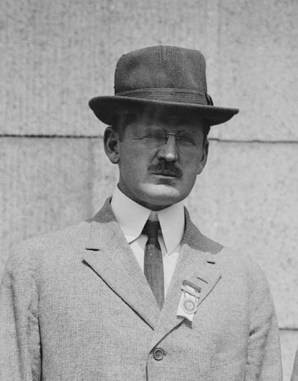 Photo shows Joseph Johnson, Fire Commissoner in New York from 1911 to 1913.